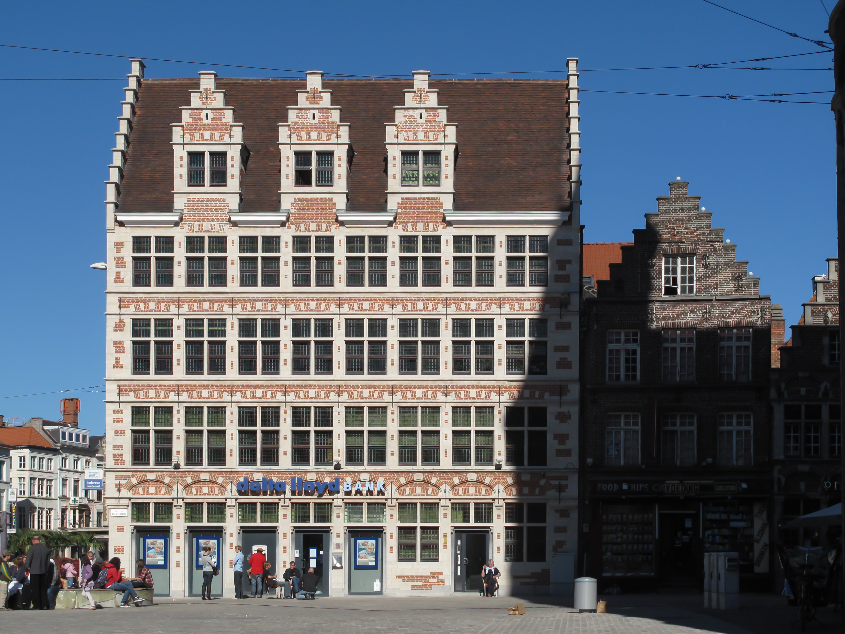 Ghent: monumental office building: Delta Lloydbank